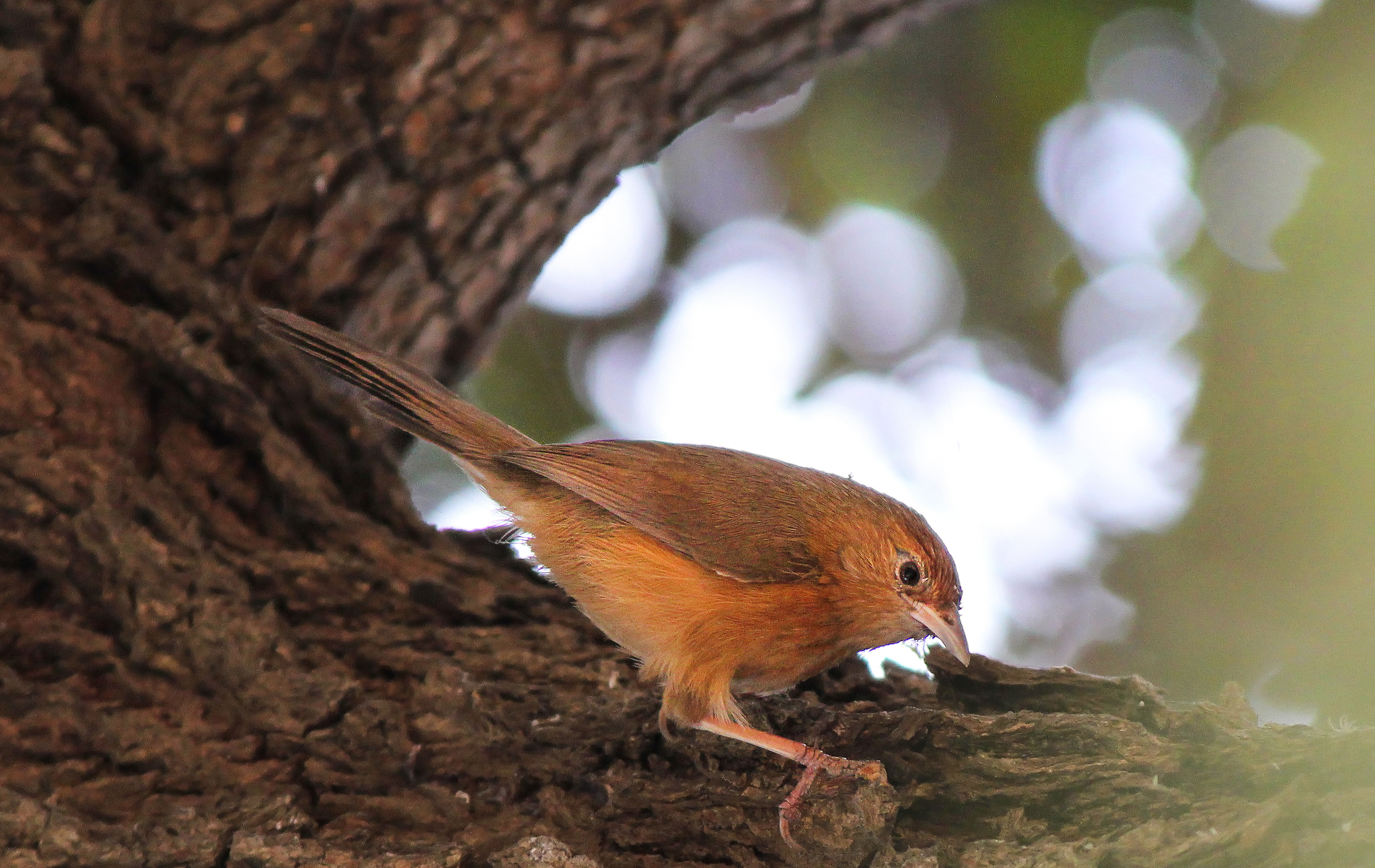 Tawny-bellied Babbler foraging on a tree bark, in Bhopal, Madhya Pradesh